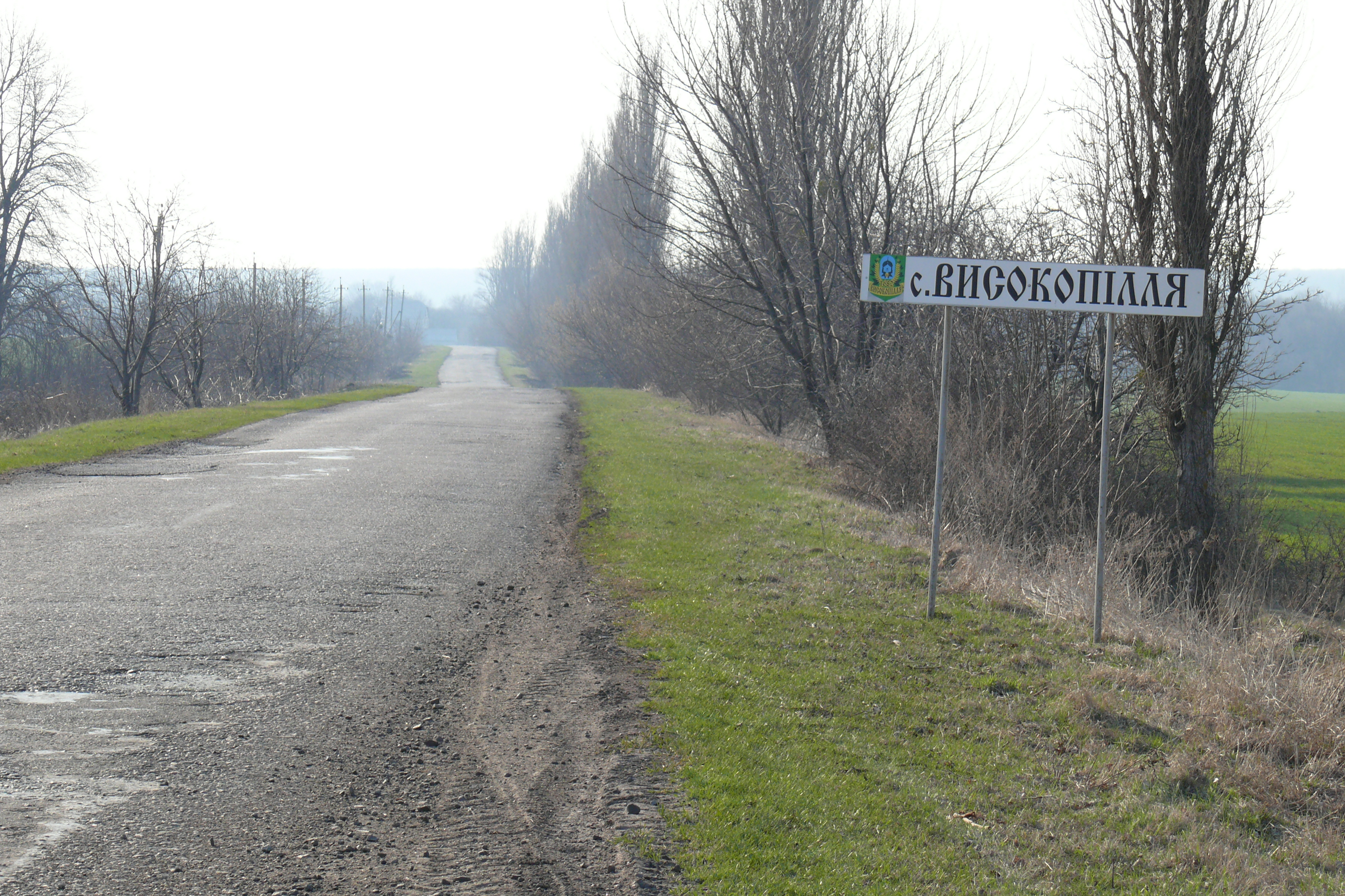 Vysokopolye